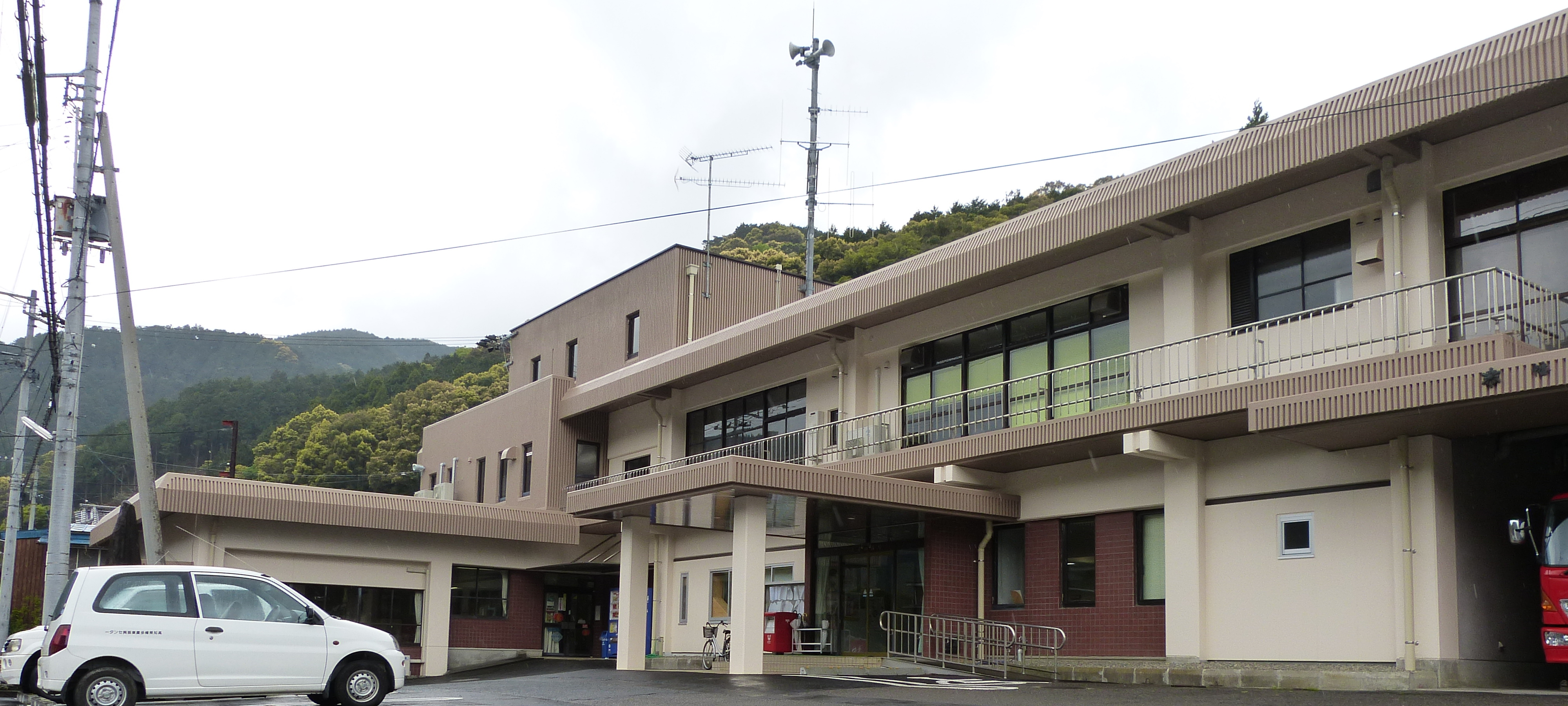 Mihara village hall,Kochi prefecture,Japan